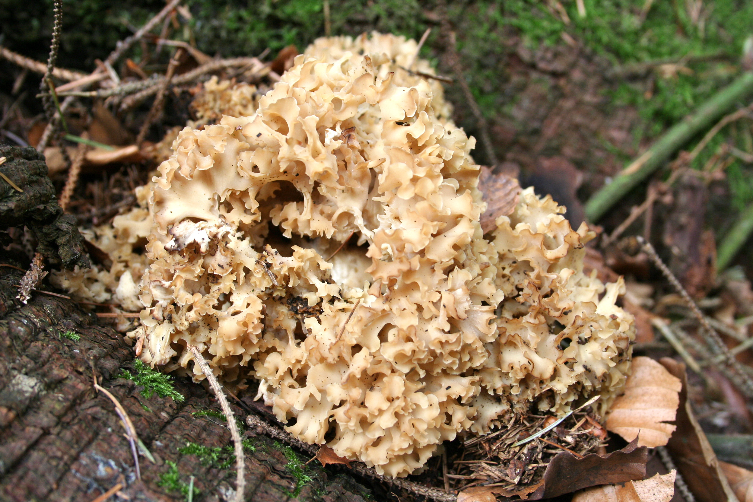 cauliflower mushrooms, Tervuren, Belgium